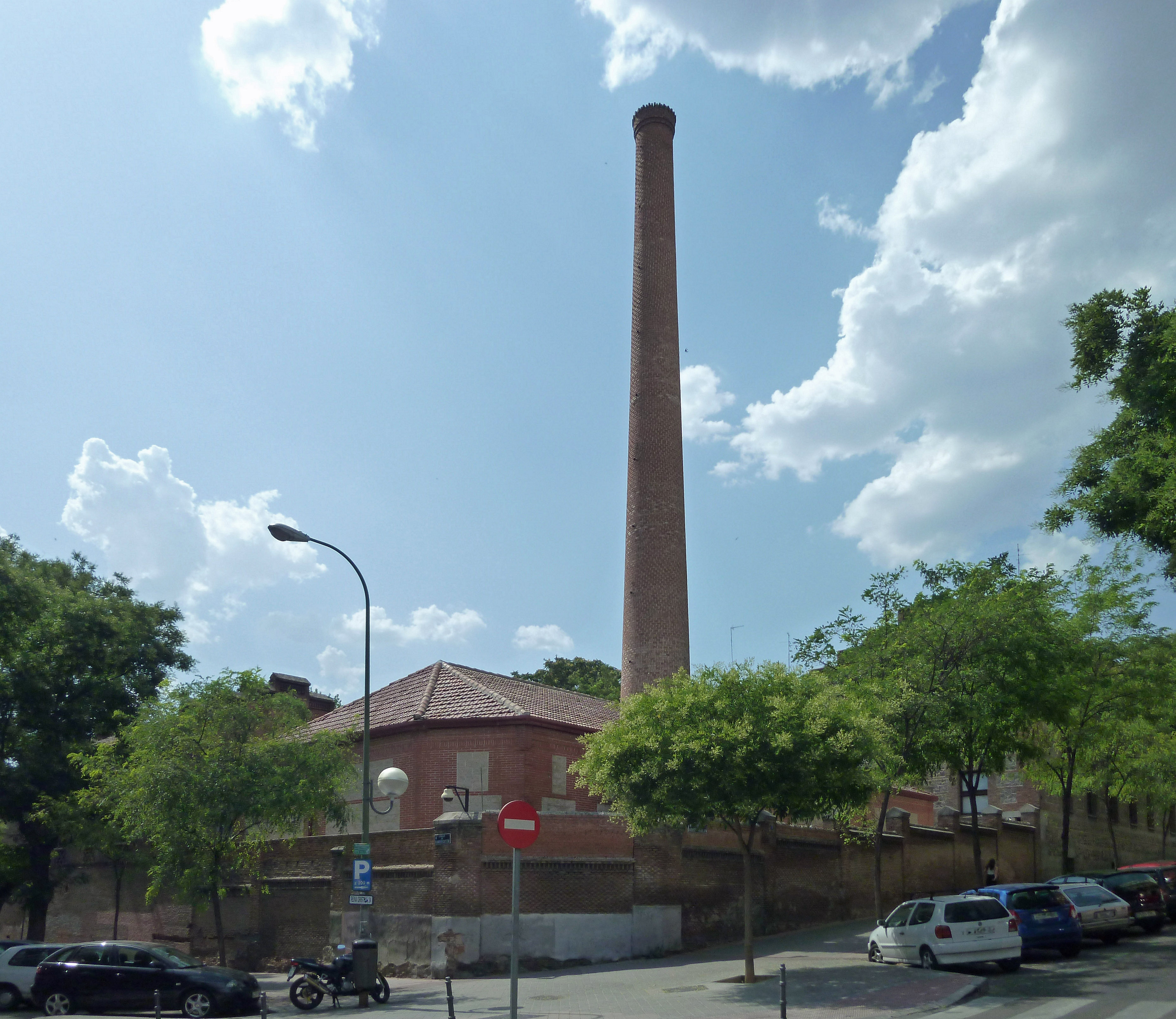 Façade of the Royal Tapestry Factory in Madrid (Spain), at 2nd Calle de Fuenterrabía (street). Projected by José Segundo de Lema and built between 1889 and 1891.